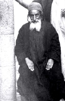 Photo of Yihya Yitzhak Halevi, Chief Rabbi of Yemen, taken in Yemen in the 1920's Other information The photo was given to me by the descendant of the original owner, Rabbi Aviran Yitzhak Halevi of Benei Barak for publishing on Wikipedia.